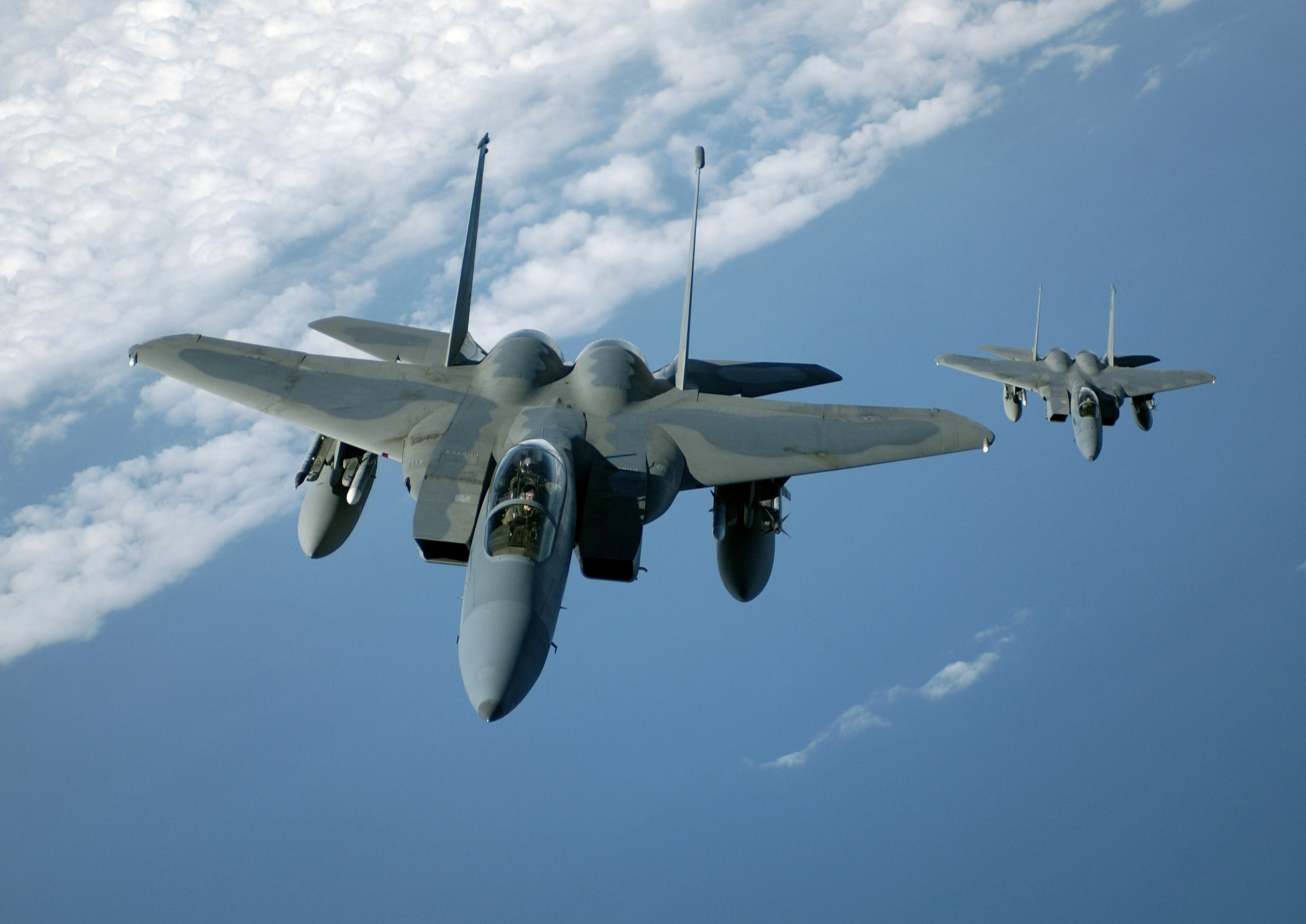 Two Air Force F-15 Eagles fly in formation over the Atlantic Ocean on June 24, 2005. The Eagle is all-weather tactical fighter designed to gain and maintain air supremacy over the battlefield. These Eagles are operating from Langley Air Force Base, Va.